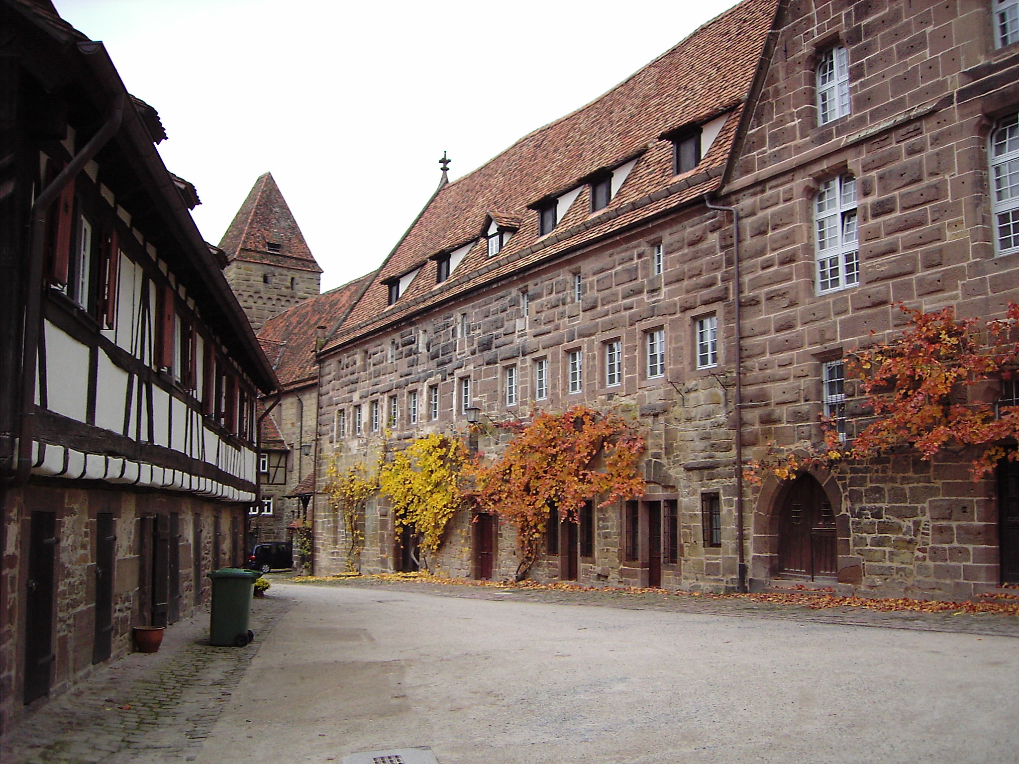 Maulbronn Monastery - Monastic Mill (now Youth Hostel)